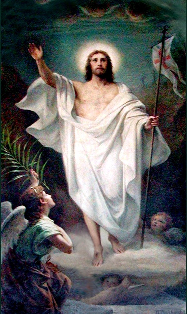 Victory over the Grave